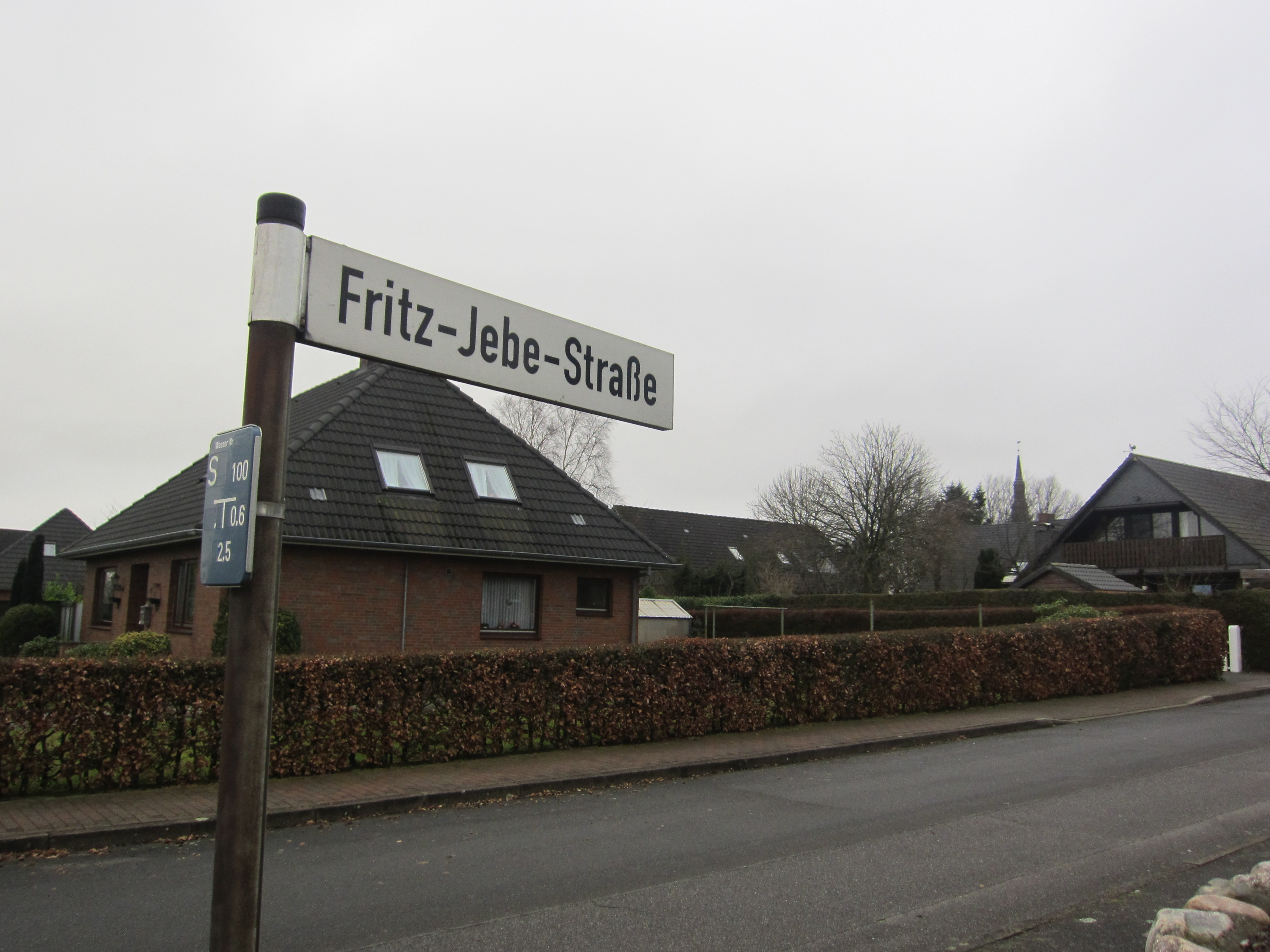 Street sign "Fritz-Jebe-Straße" in Ostenfeld, Nordfriesland